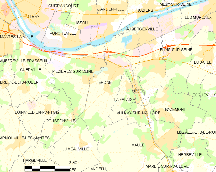 Map of French municipality Épône